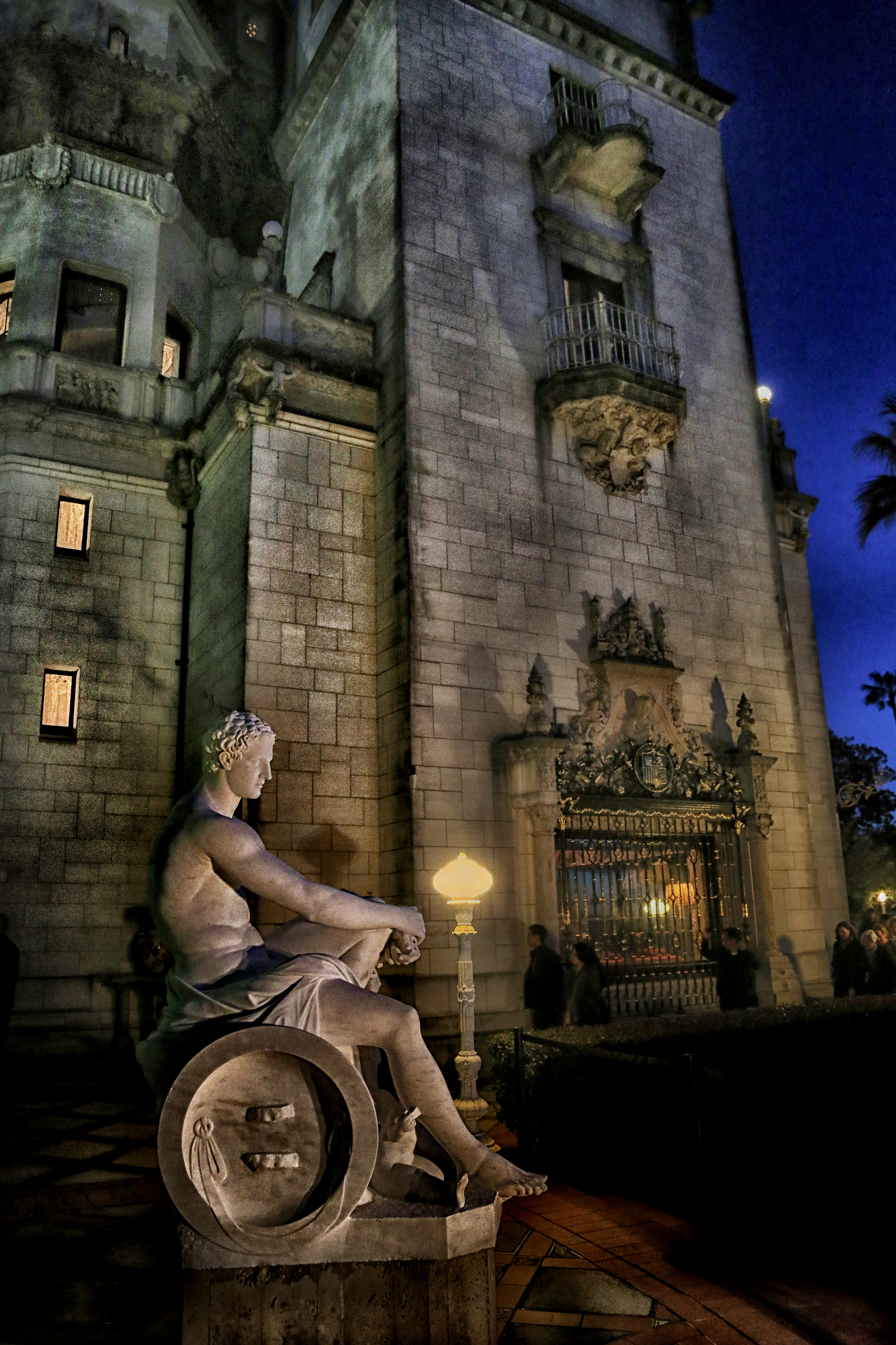 Hearst Castle at night